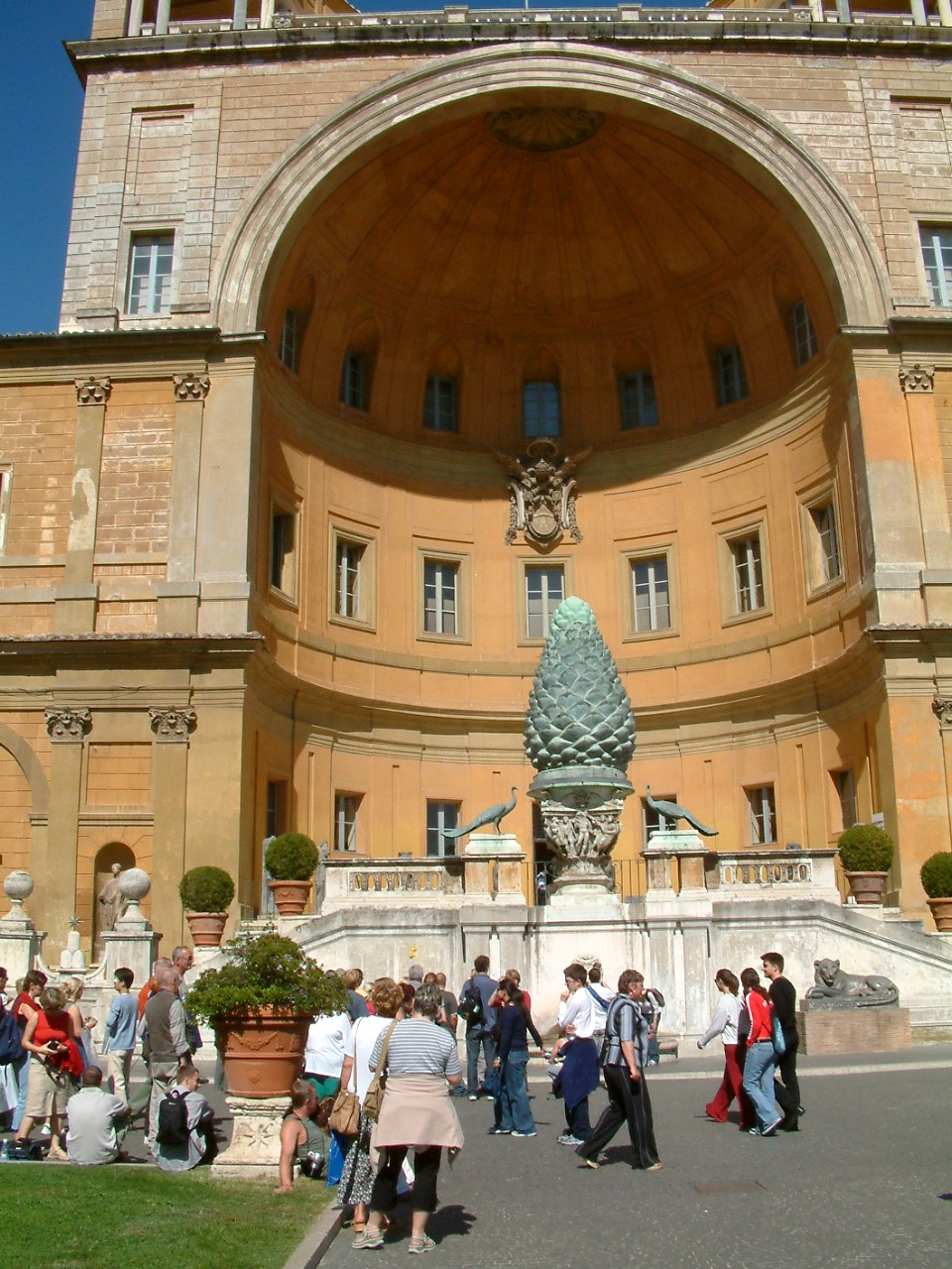 Vatican Museums Native nameMusei VaticaniLocationVatican CityCoordinates41° 54′ 23″ N, 12° 27′ 16″ E Established1506Web page control : Q182955 VIAF: 141443926 ISNI: 0000 0001 0807 3165 LCCN: n81003002 GND: 235092-0 SUDOC: 032013795 WorldCat institution QS:P195,Q182955 Courtyard of the pine cone in Vatican Museums